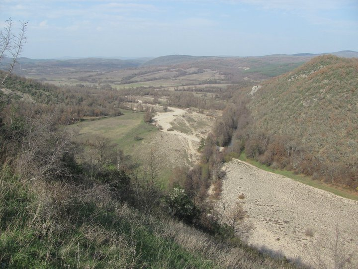 River Byala Reka in Bulgaria, as seen from the Byal grad Fortress